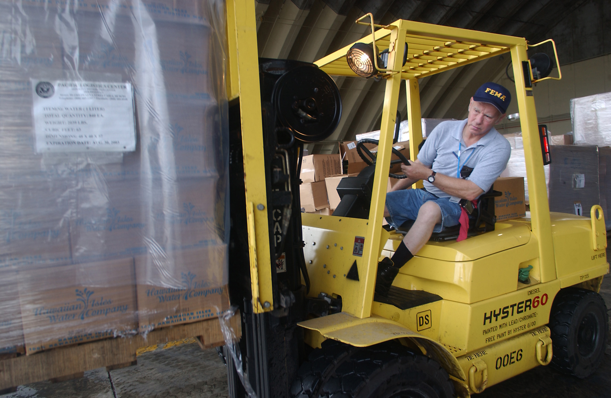 Anderson Air Force Base, Guam, December 16, 2002 -- FEMA employee, Robert Love loads cases of water onto a semi truck for distribution to islanders on the super typhoon stricken island of Guam. Photo by Andrea Booher/FEMA News Photo